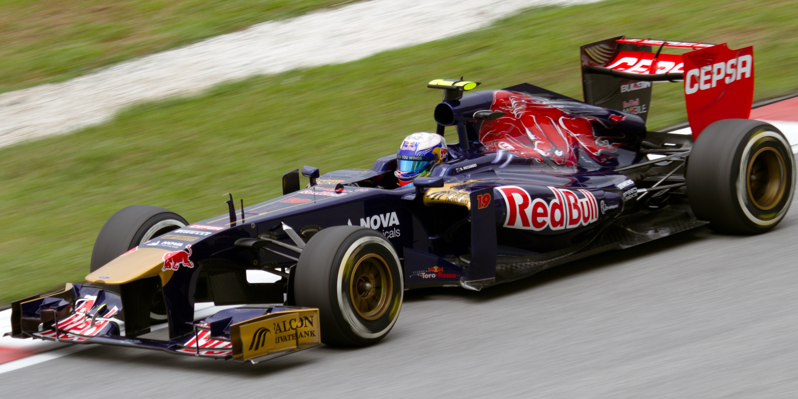 Formula One 2013 Rd.2 Malaysian GP: Daniel Ricciardo (Toro Rosso) during the second practice session on Friday.